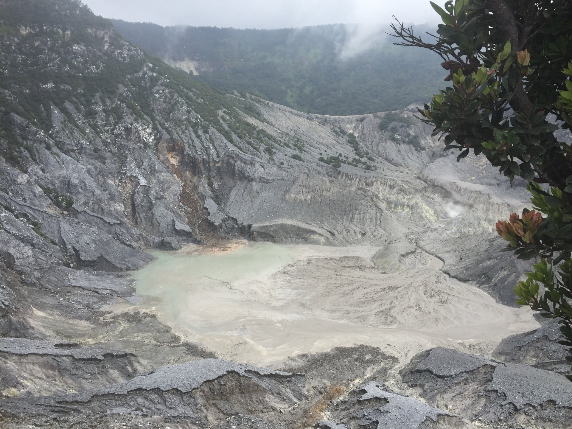 creater Tangkuban Parahu